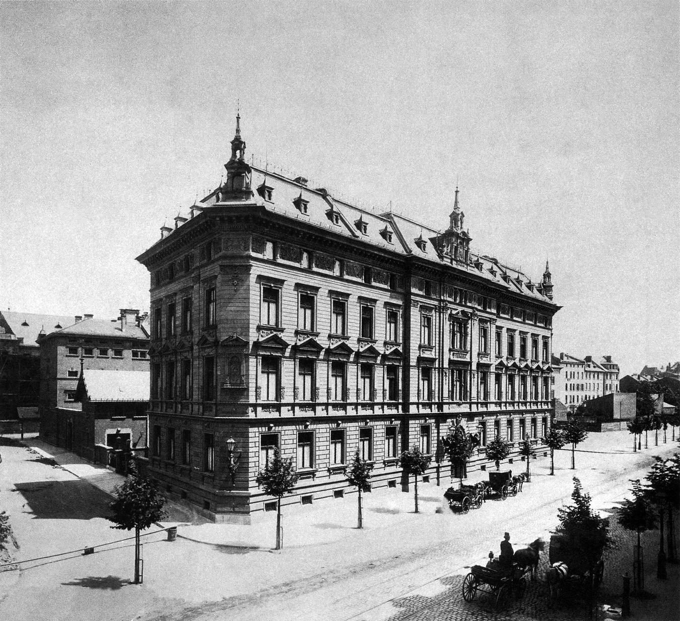 Frankfurt on the Main: Building of the police headquarters at the Neue Zeil (New Zeil), to the left the Klingerstraße (Klinger street)